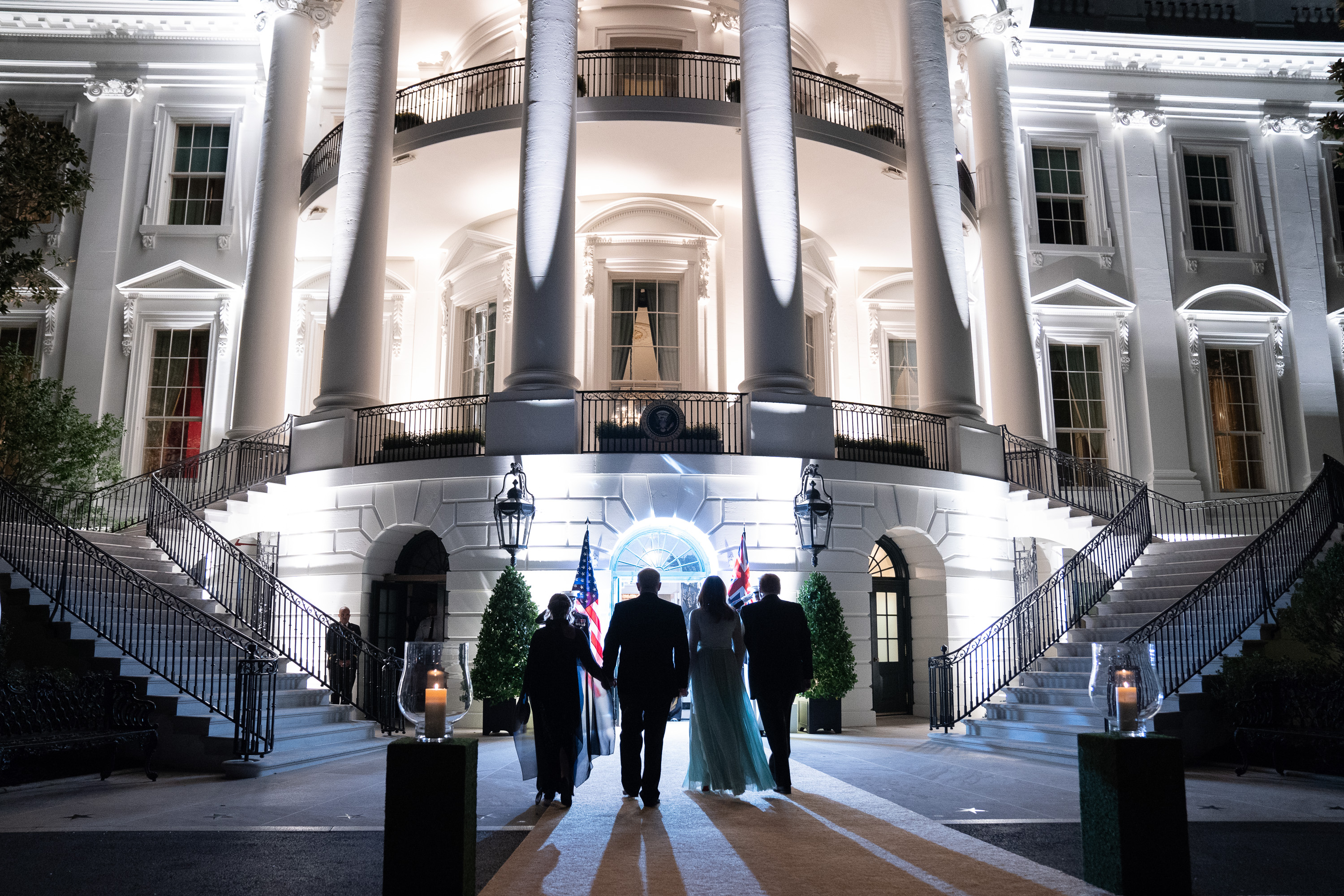 President Donald J. Trump and First Lady Melania Trump enter the South Portico of the White House with Australian Prime Minister Scott Morrison and his wife Mrs. Jenny Morrison Friday, Sept. 20, 2019, following the State Dinner in the Rose Garden. (Official White House Photo by Shealah Craighead)